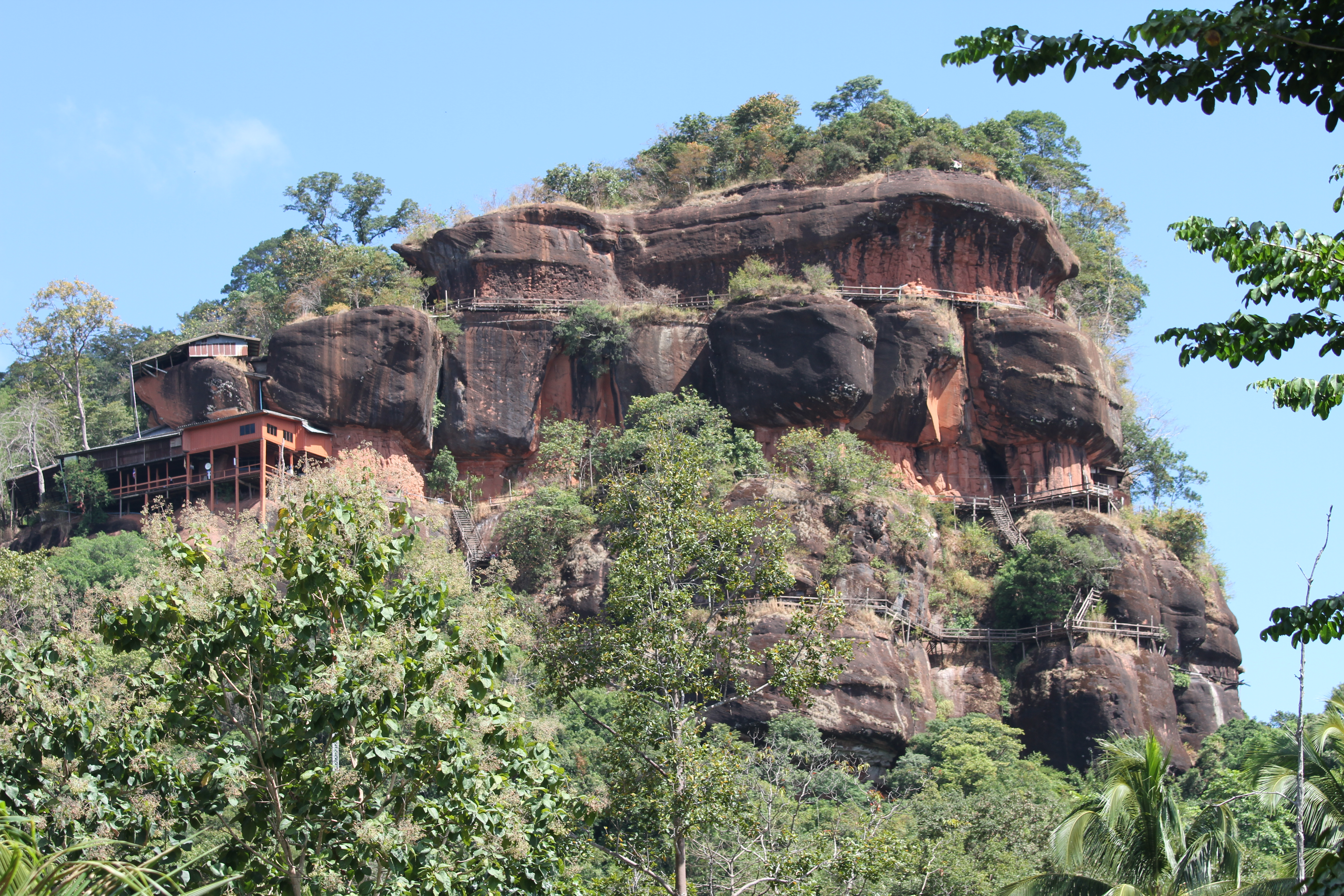 large view from the bottom